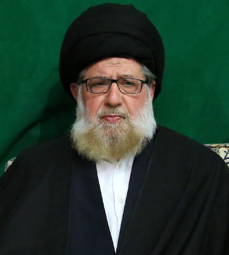 Ayatollah Sayyed Mohammad Khamenei & Ayatollah Sayyed Ali Khamenei in Imam Khomeini Hossainiah in October 2015